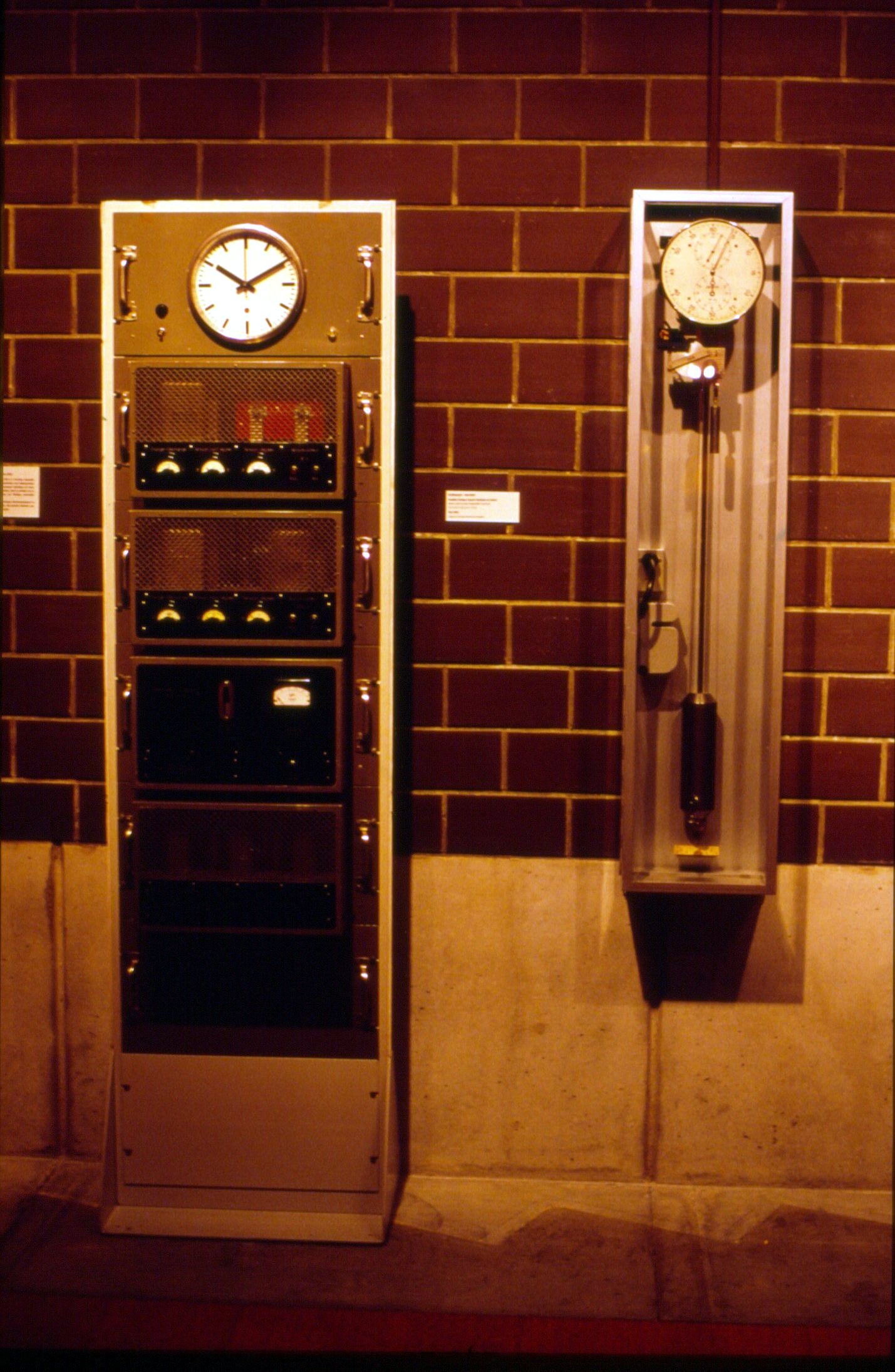 Musée International d'Horlogerie, La Chaux-De-Fonds, Switzerland. On the left is one of the first quartz clocks, which superseded mechanical clocks as precision time standards in the 1930s. On the right is a precision regulator clock made by German firm Clemens Riefler, which were used as time standards worldwide in the early 1900s.